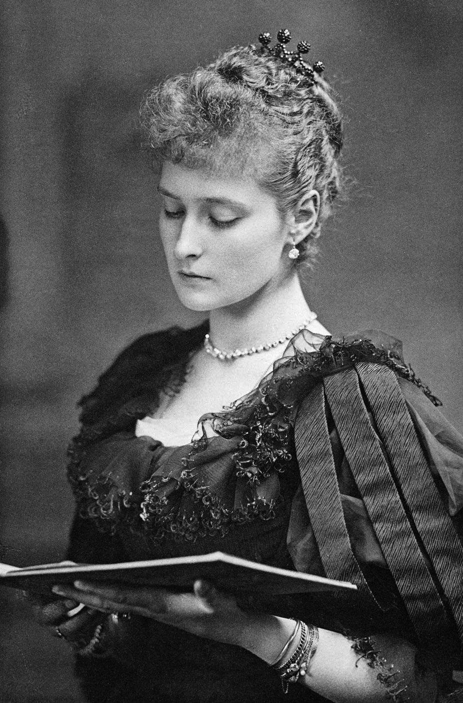 Alix of Hesse, the later Empress Alexandra Fyodorovna